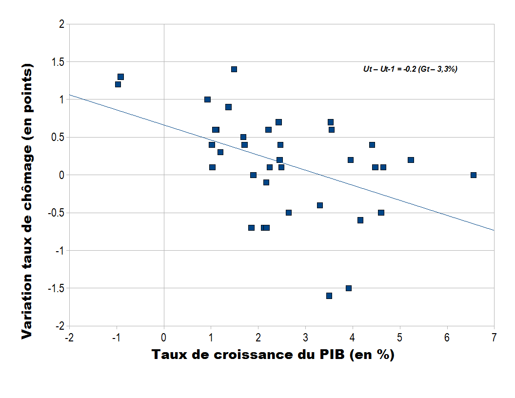 Okun's Law in France 1970-2007 (relationship between change in unemployment rate and growth rate). ILO and INSEE data. Each dot is one year.